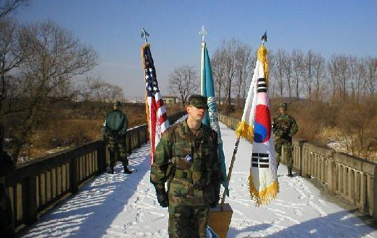 A U.S. soldier participates in a ceremony on the Bridge of No Return, in the Joint Security Area of the DMZ of the Korean peninsula.